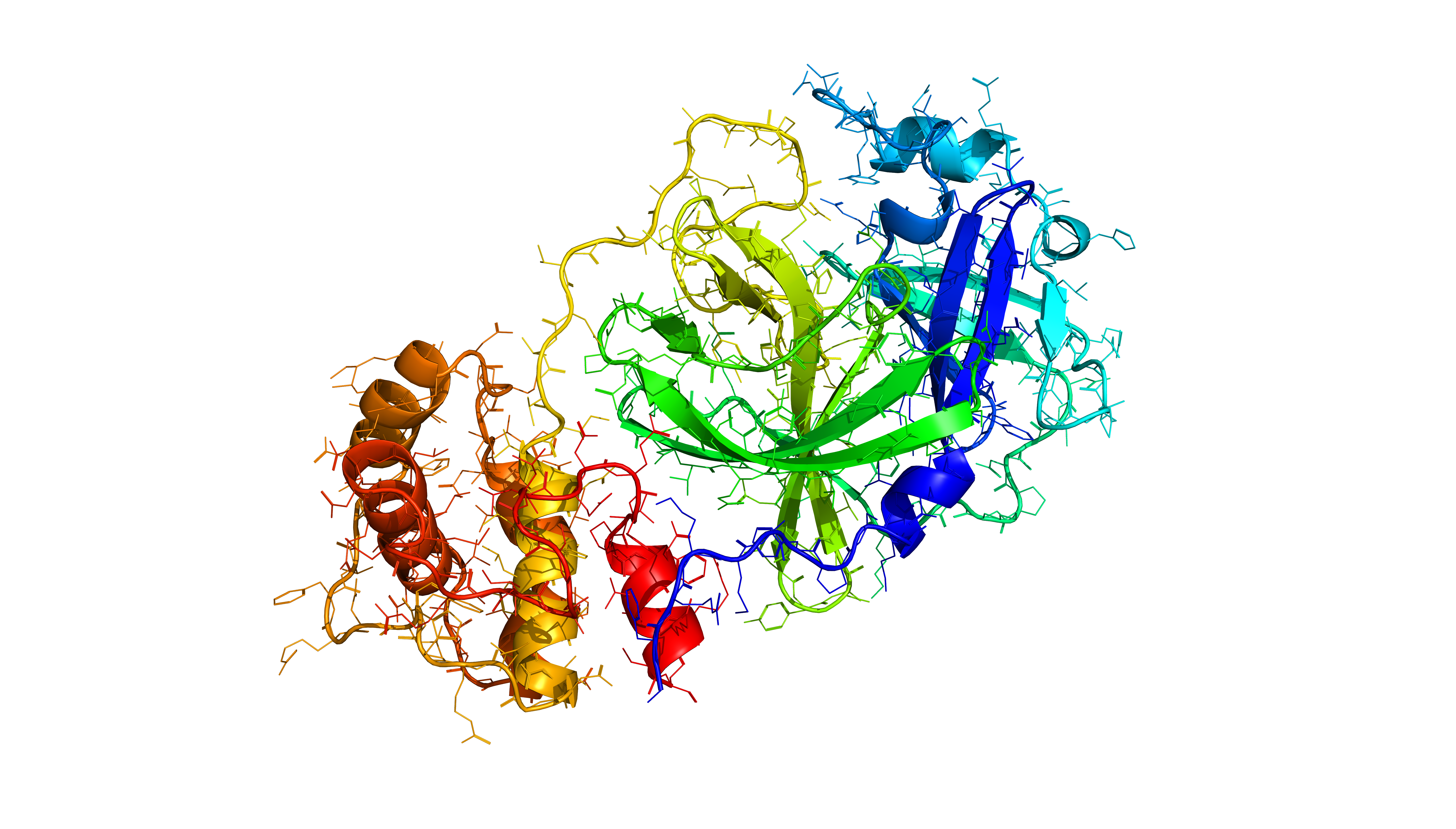 Phyre2 model ribbion diagramm rendering of the 2019-nCoV M(pro) protease as a target for antiviral drugs.